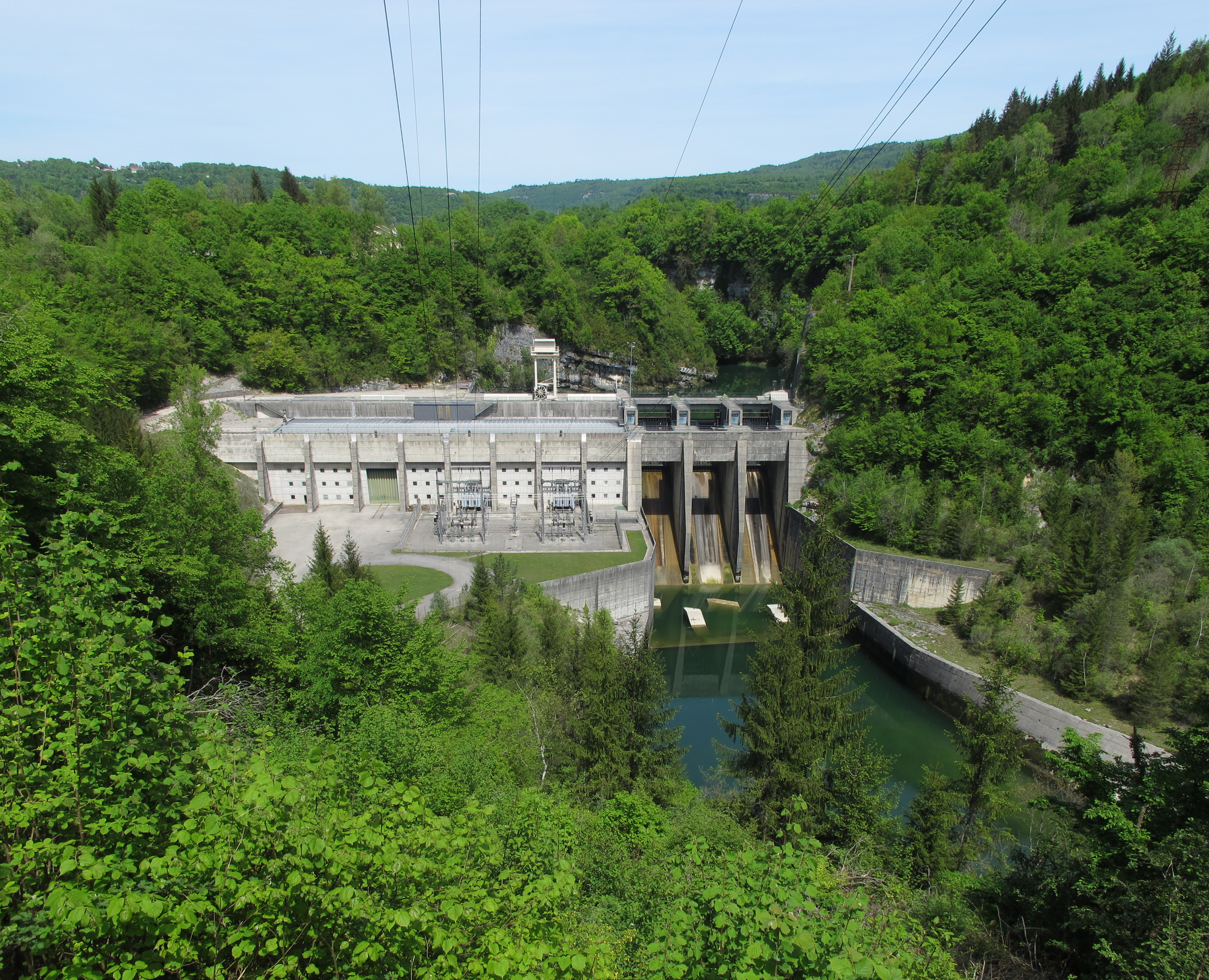 Le barrage du Saut-Mortier sur l'Ain. A geometrical transformation has been applied to this image. Please use the original image linked below if you do not want to discuss such image transform functions.